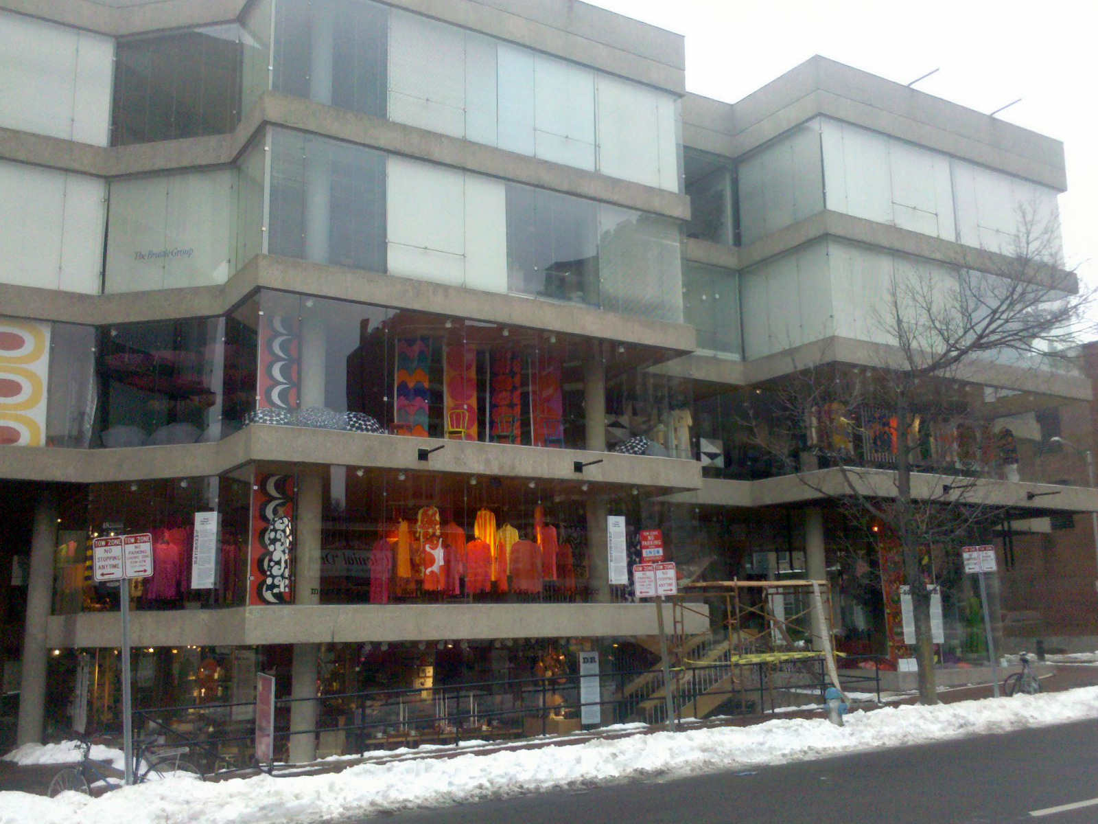 Design Research Building in 2009, the 40th Anniversary of its founding, featuring a display of Marimekko fabric designs.